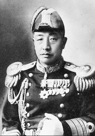 Admiral Siozawa Kôiti (1881-1943)